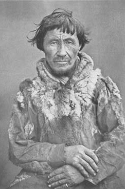 This photo is part of a set of about 100 anthropological portraits made by Prince Roland Bonaparte, 1884.